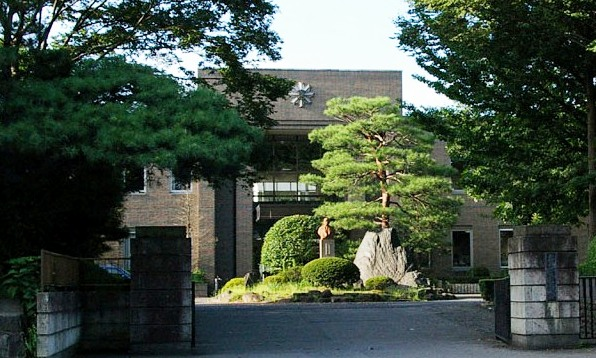 The Sendai Daini High School; One of the prefecture's oldest high schools located in an educational district of Sendai city, Japan. This once fancy boy's school established in 1900 was transformed into an ordinary coeducational school in 2007 even with a venement oppositions from tradition-loving people.